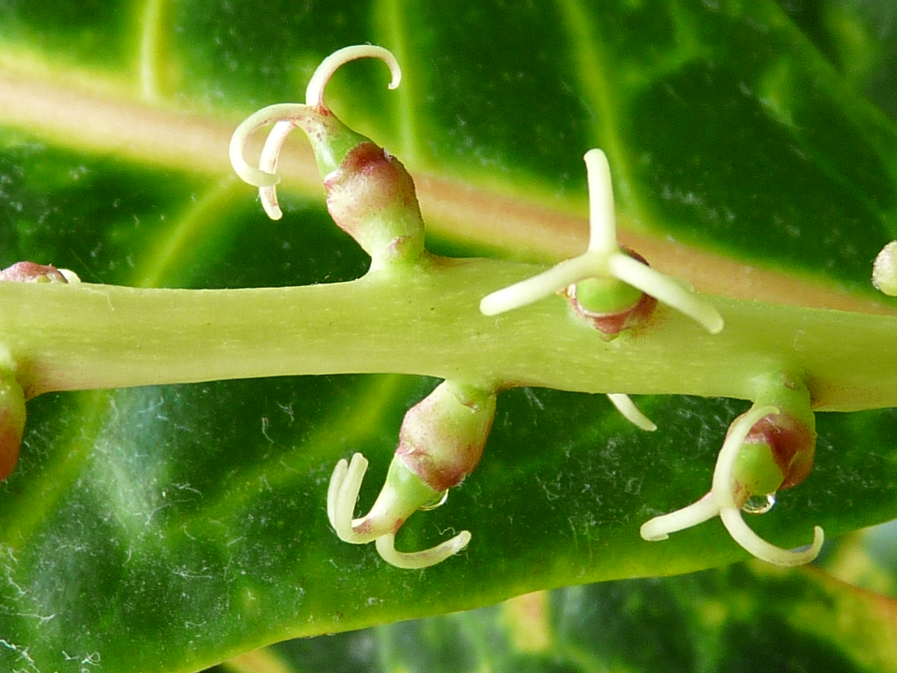 Codiaeum variegatum, female flowers Place: Poland, Mielec